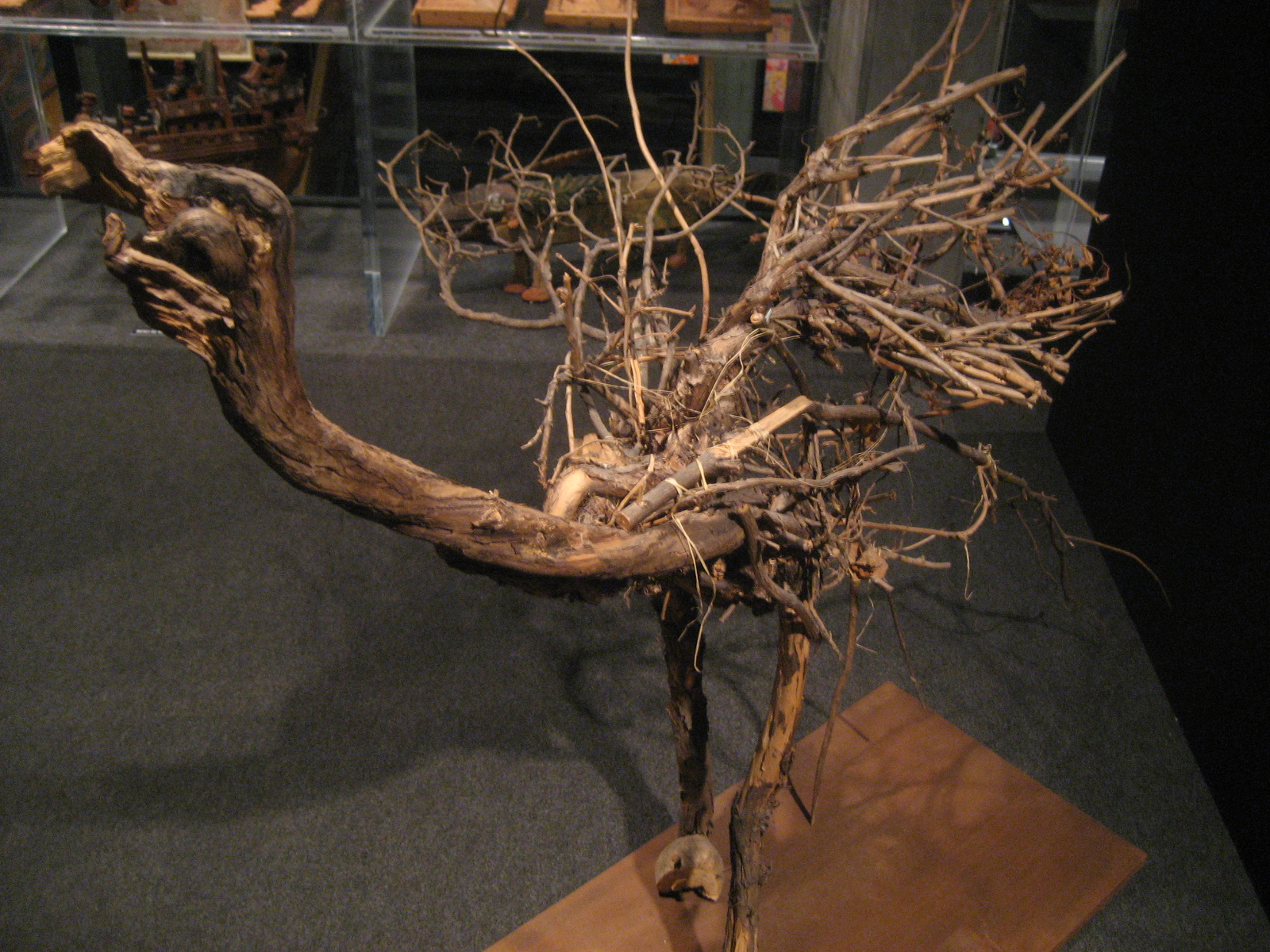 La Collection de l'Art Brut: Eugenio Santoro's Bird made from Twigs and Branches